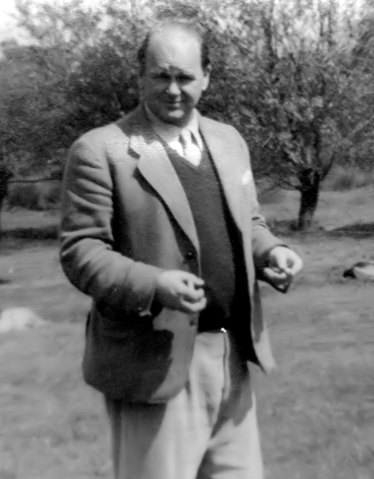 Peter Scott at Slimbridge Wildfowl and Wetlands Trust, Gloucestershire, England in 1954 (he was not Sir Peter Scott until 1973. Photographed by Adrian Pingstone and released to the public domain.